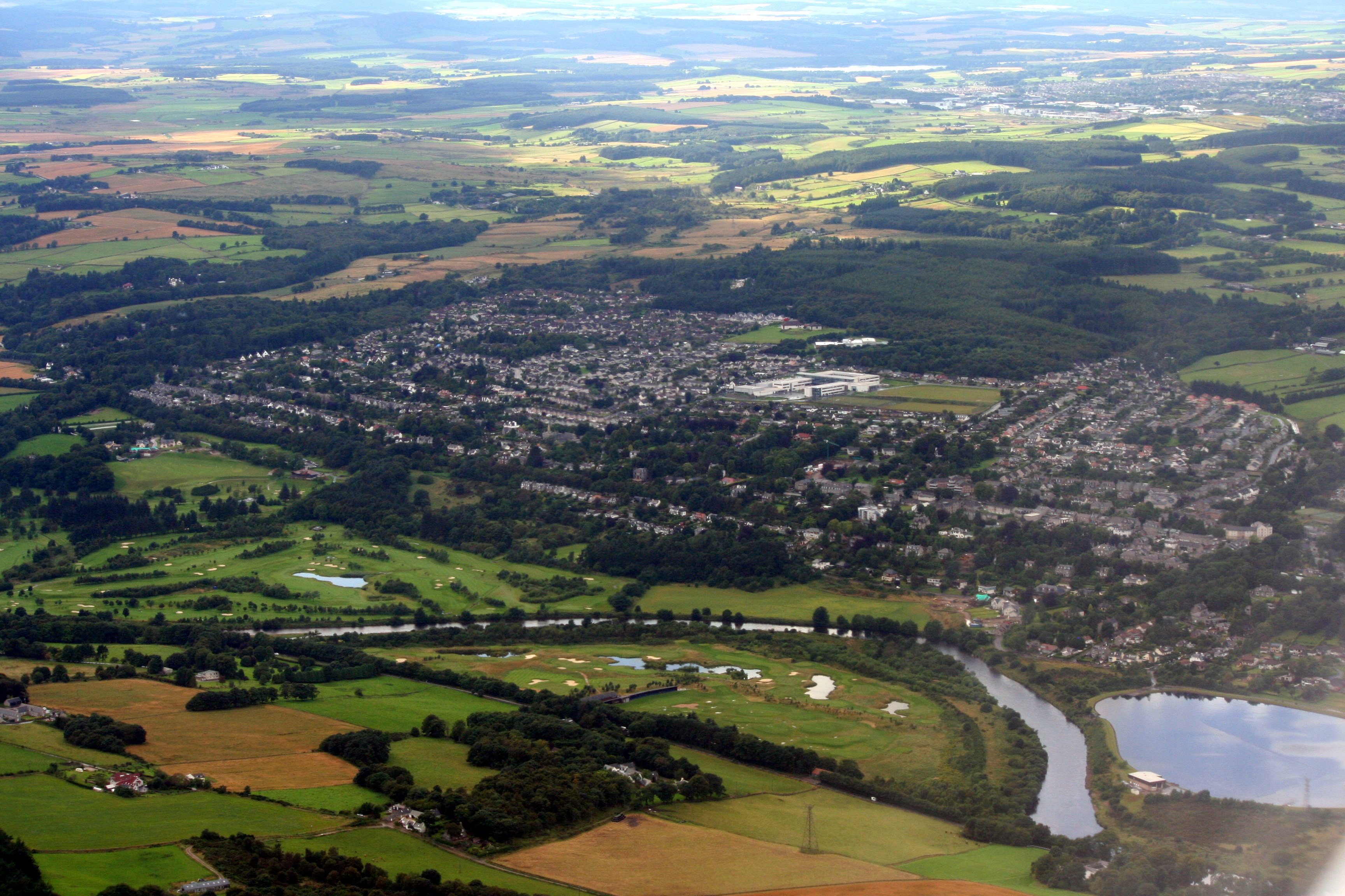 Cults, a suburb on the western edge of Aberdeen, Scotland, on the bank of the river Dee. Also seen at the lower right corner Inchgarth reservoir. Taken just before landing at Aberdeen Airport